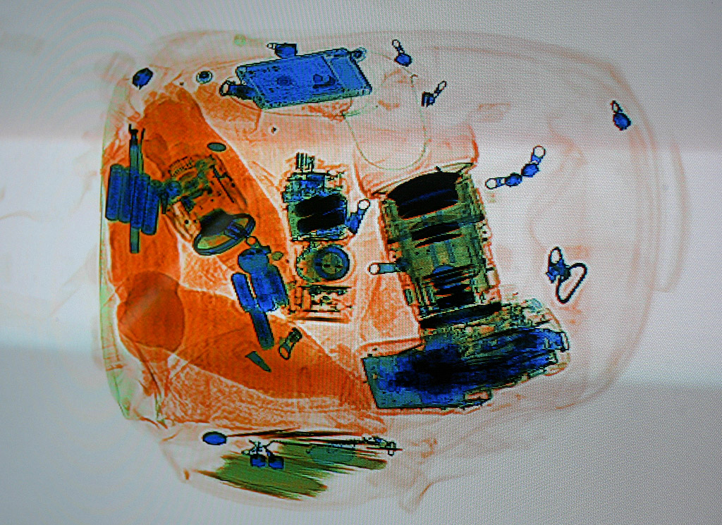 Photograph of a baggage screening x-ray display, taken at the Verkehrshaus (Swiss Museum of Transport). Lucern, Switzerland on October 23, 2006 by Duke